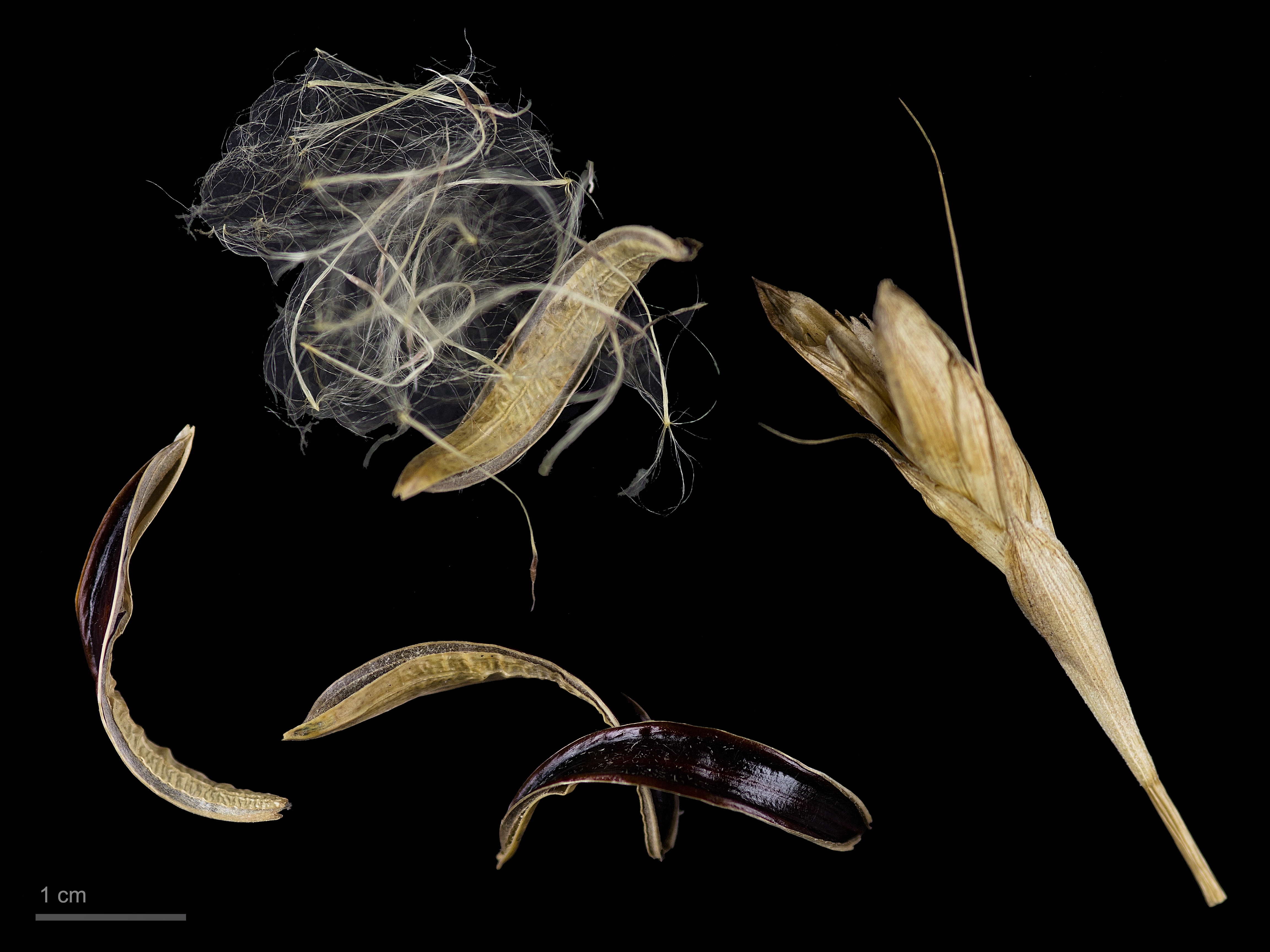 Tillandsia schiedeana , fruits and seeds